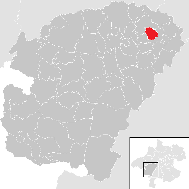 District Vöcklabruck